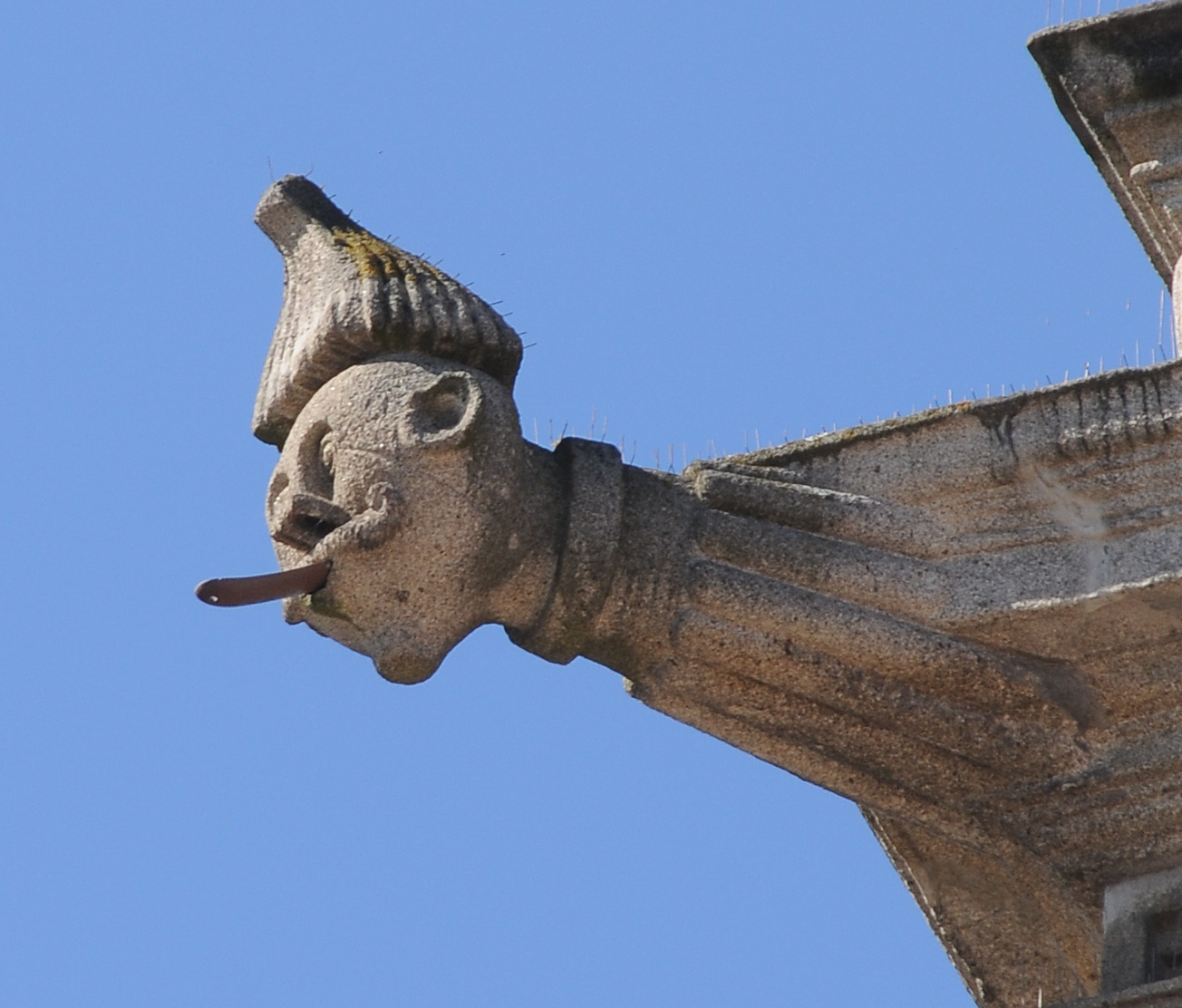 Church of Santa Cruz in Braga, Portugal.